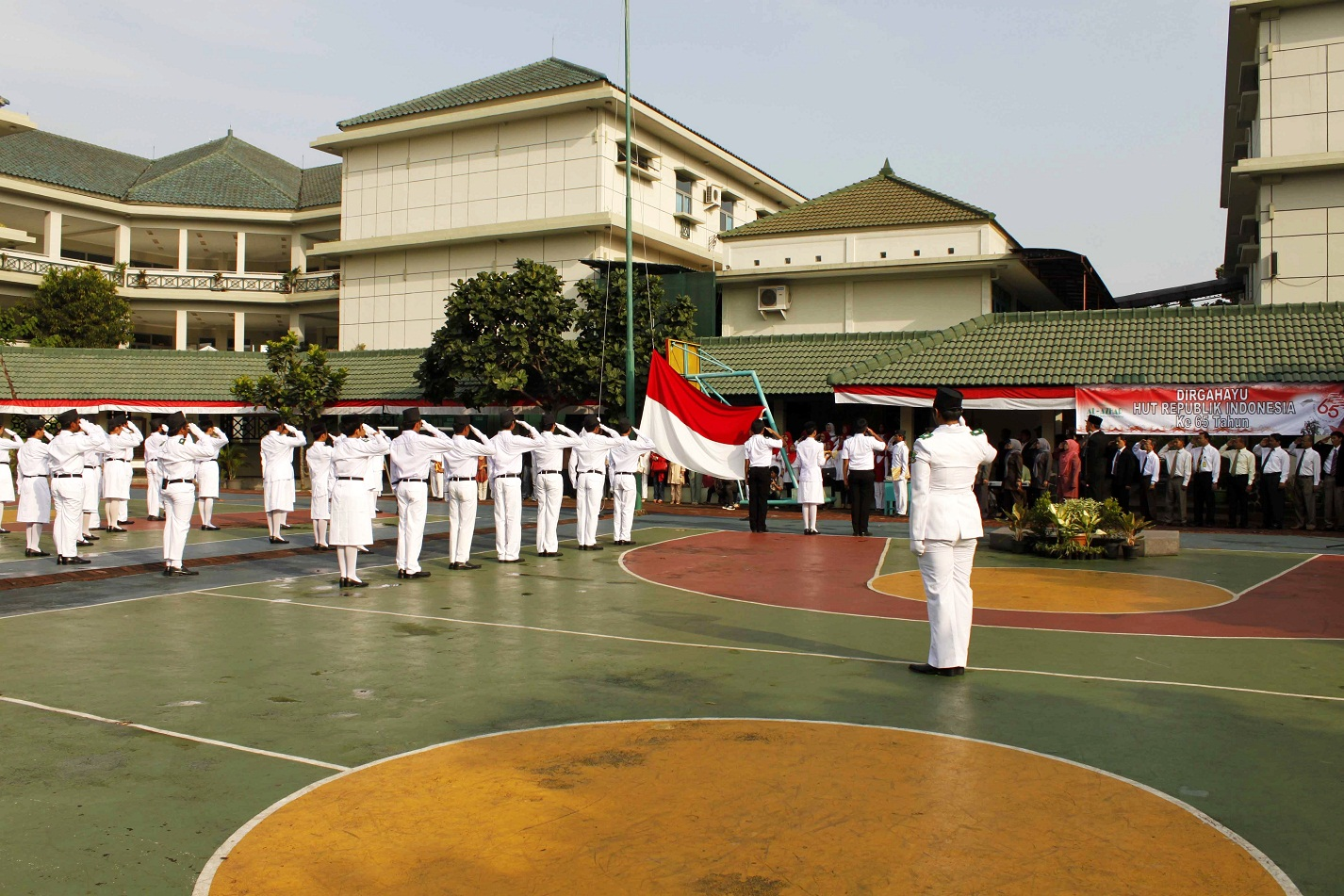 Raising Indonesian national flag